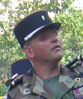 A kepi worn by an officer of the French Army